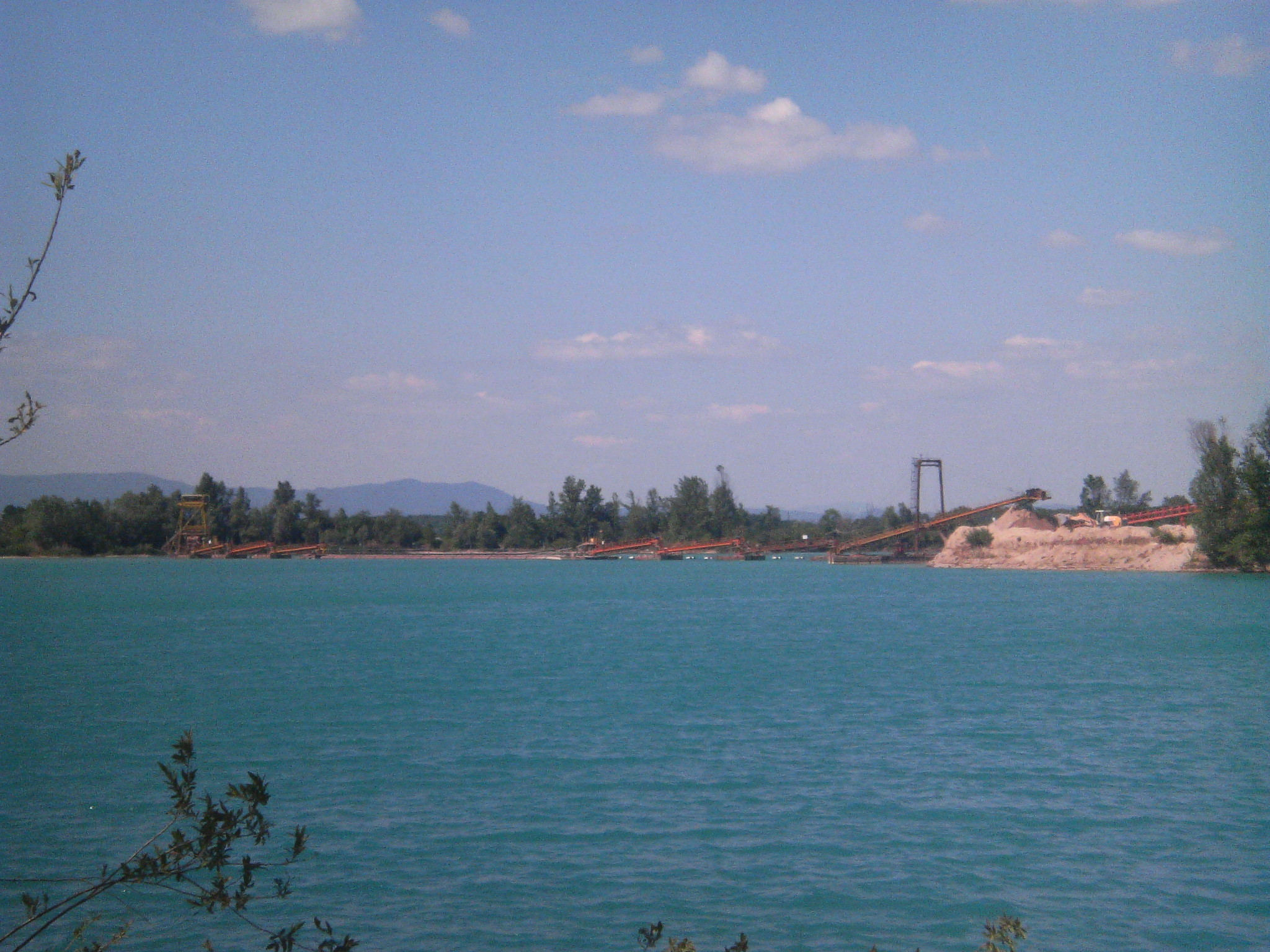 Lake Cice, Croatia